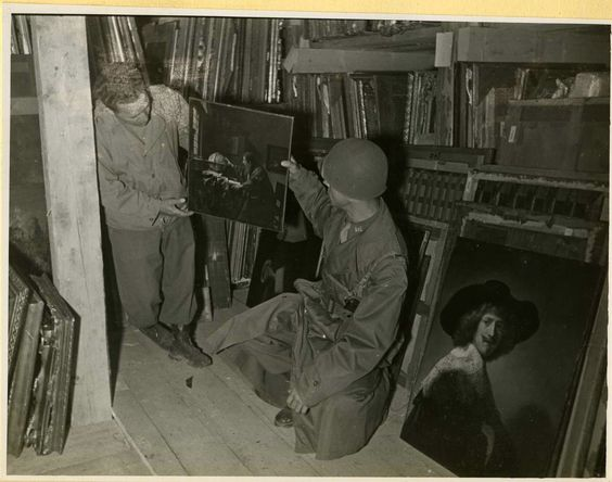 Altaussee Salt/Art Mine discovery after WW II Vermeer's Astronomer found in the Altaussee mine by the Monuments Men. This painting was part of the Eduard de Rothschild Collection which was looted by the ERR in 1940. (Photo credit: Robert Posey Collection)